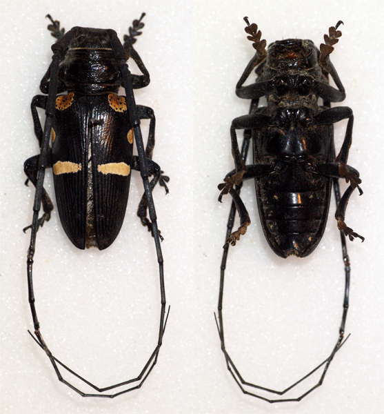 Thomson,1868 Sex: Male Data: 17-11-12 - Maltahohe - Hardap region - Namibia Size: ?